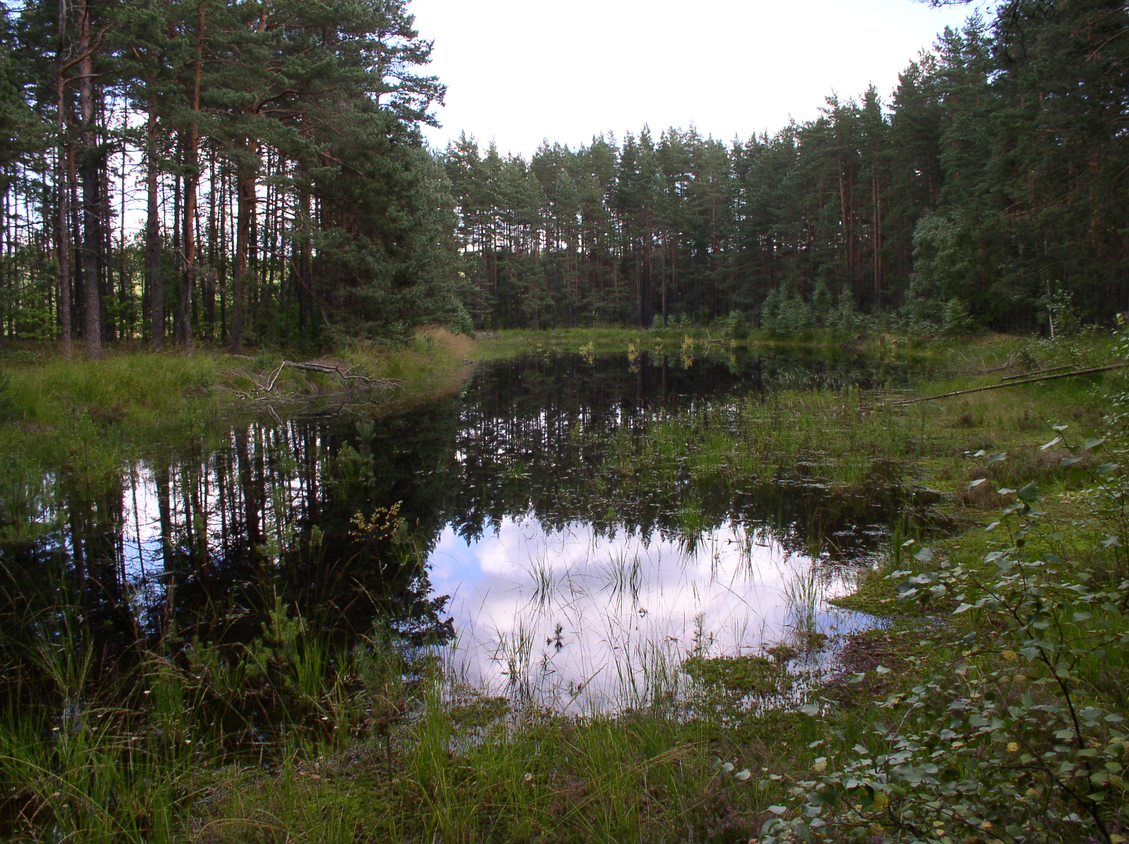 Tapily Lake, Belarus.